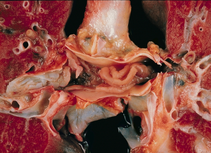 LOWER RESPIRATORY TRACT: INTRA-ARTERIAL METASTASIS TO THE MAIN PULMONARY ARTERY The tumor embolus is coiled in worm-like fashion within the lumen of the artery.